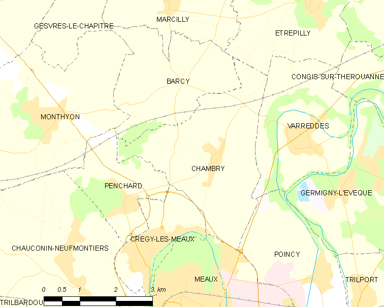 Map of French municipality Chambry